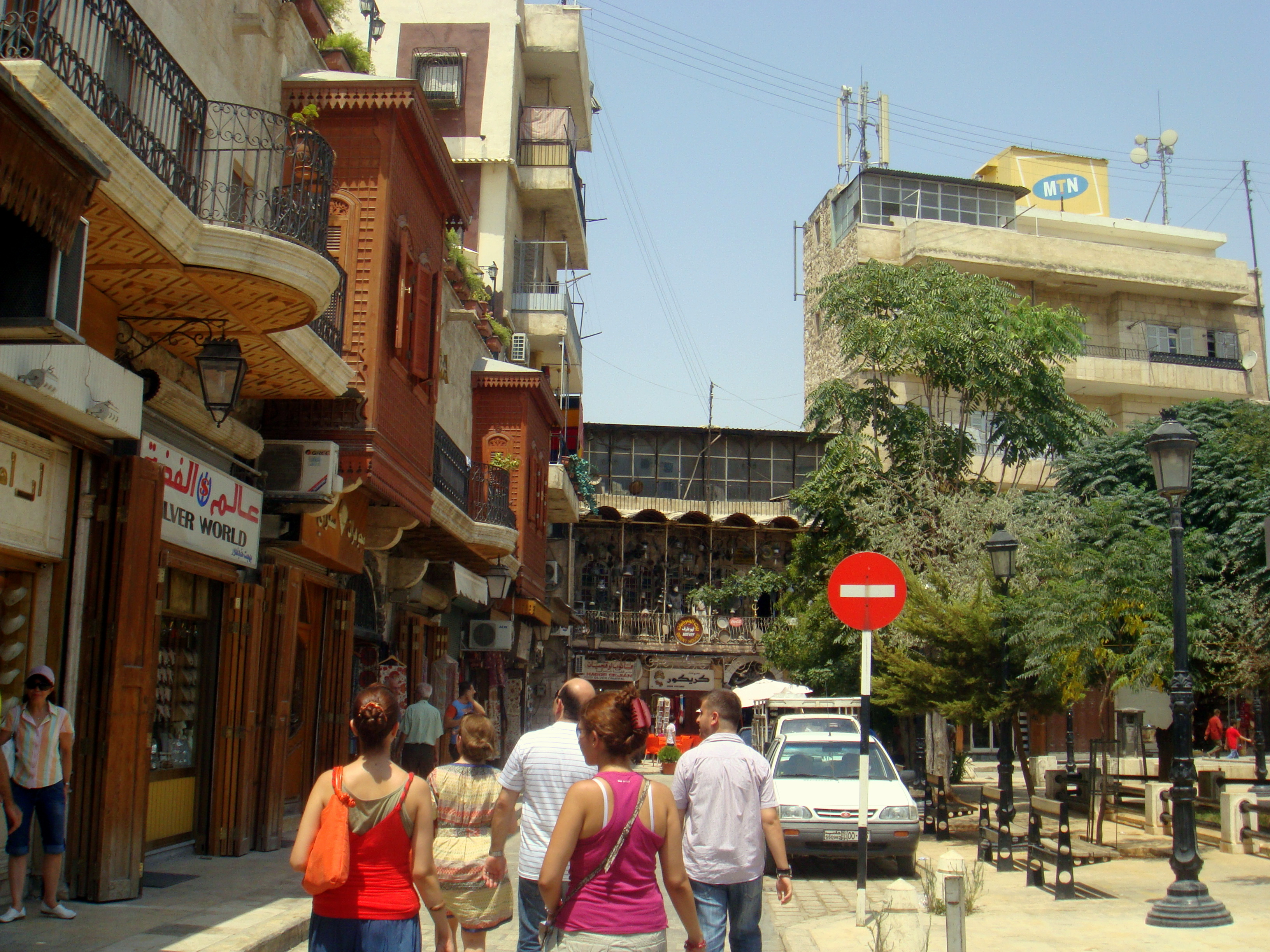 Al-Hatab square Jdeydeh, Aleppo.